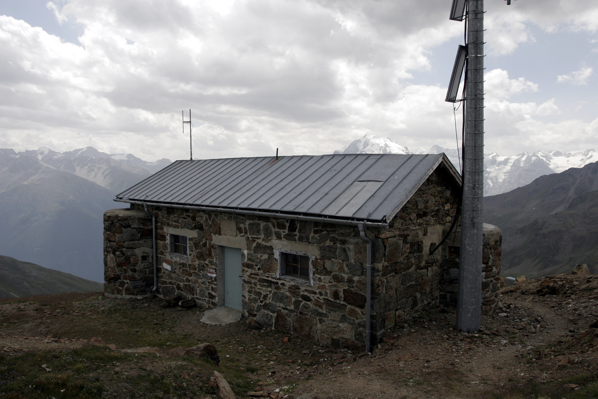 Piz Chavalatsch, South Tyrol